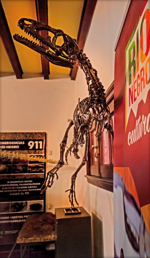 Reconstruction of the skeleton of Bicentenaria argentina made by a team of paleoartists led by Marcelo Isasi and exhibited at the Carlos Ameghino Provincial Museum.